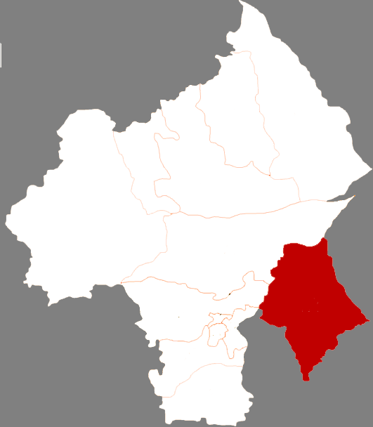 Location of Aohan banner in Chifeng city, Inner Mongolia